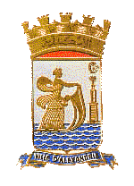 Alexandria Logo